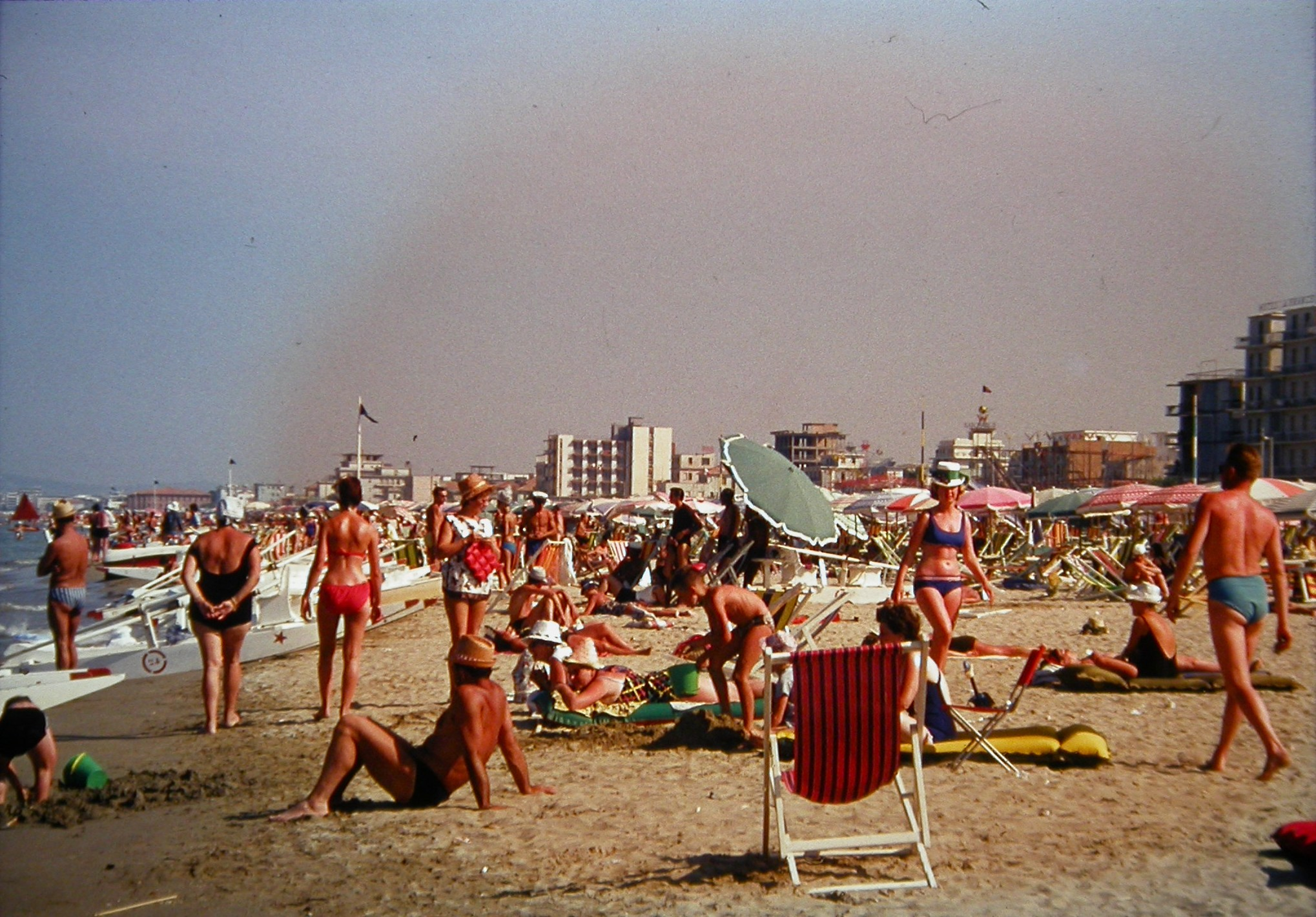 July 1963 in Rimini